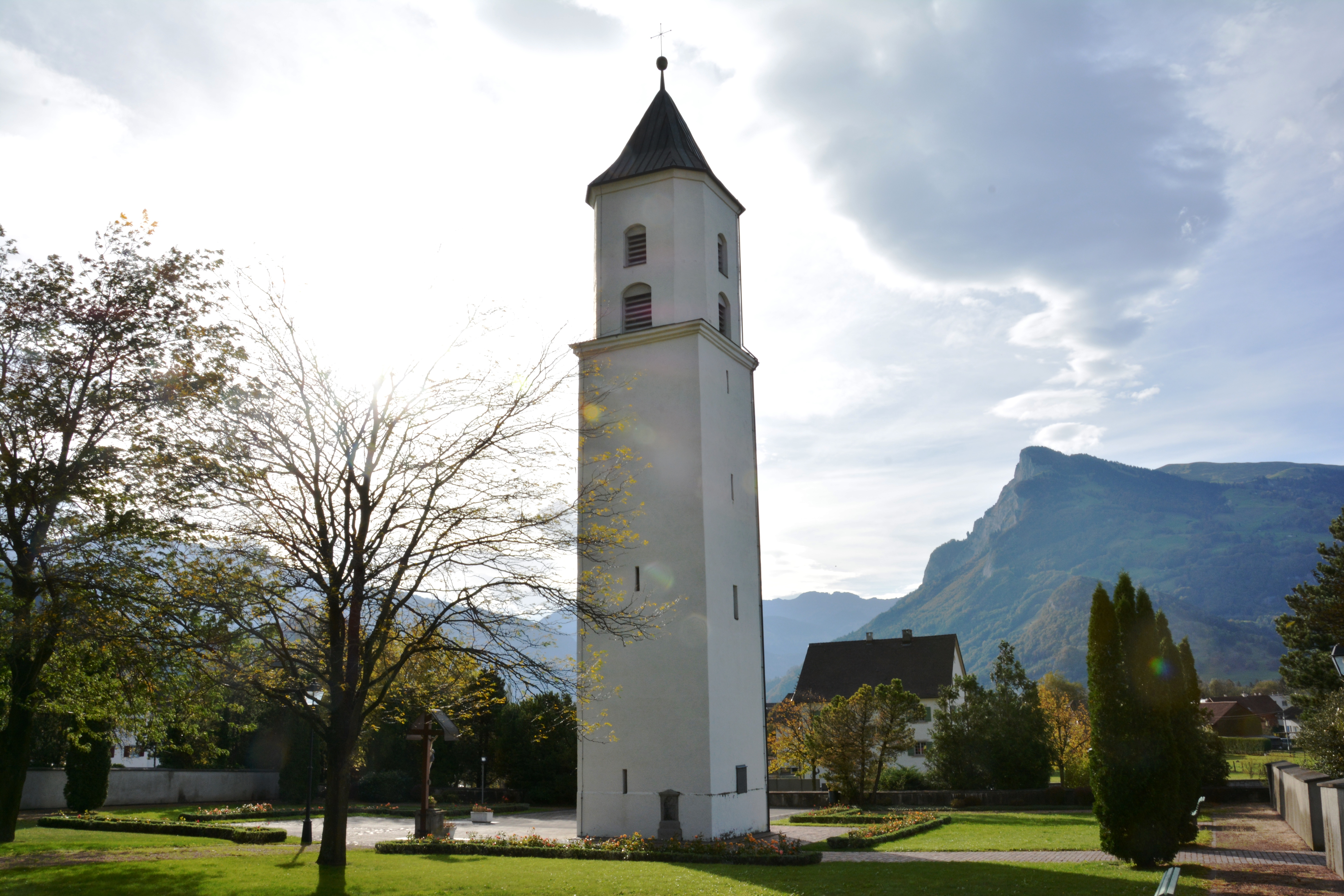 Tower of the old parish church St. Nicholas in Balzers, Liechtenstein